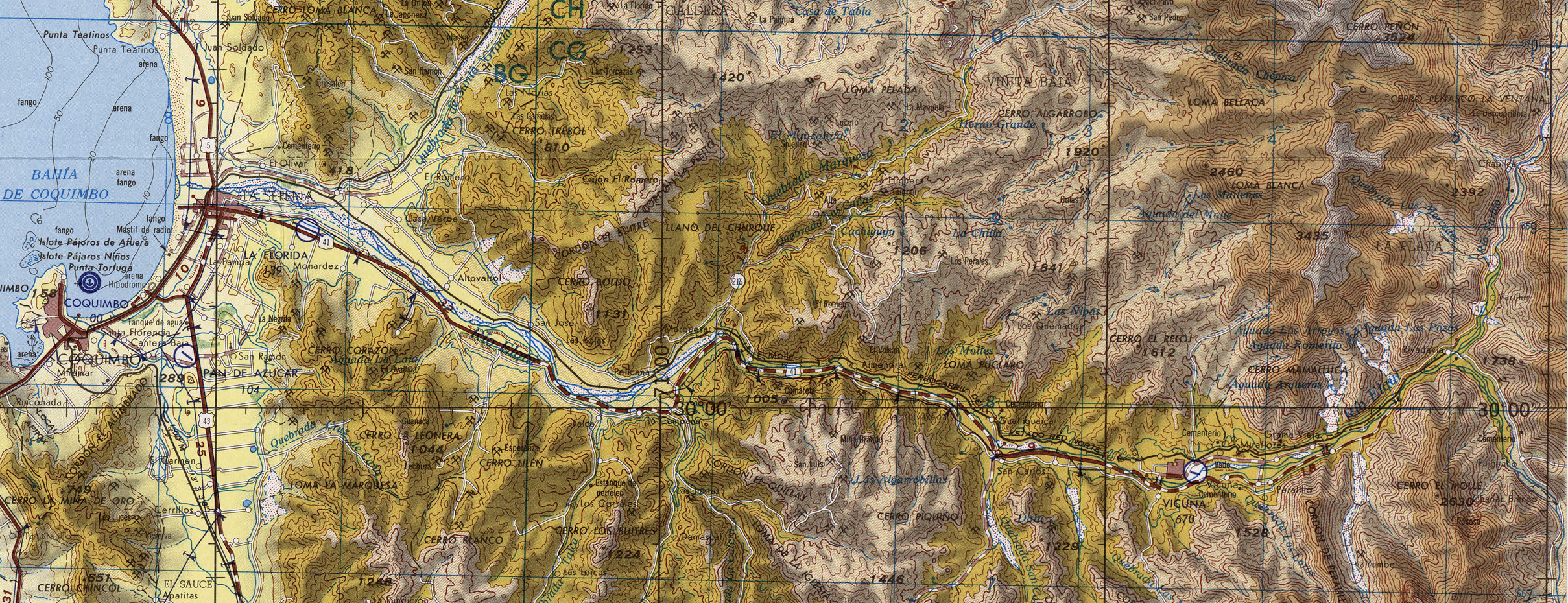 Coquimbo, La Serena, Vicuña, Rio Elqui, Rio Turbio, Rio Claro